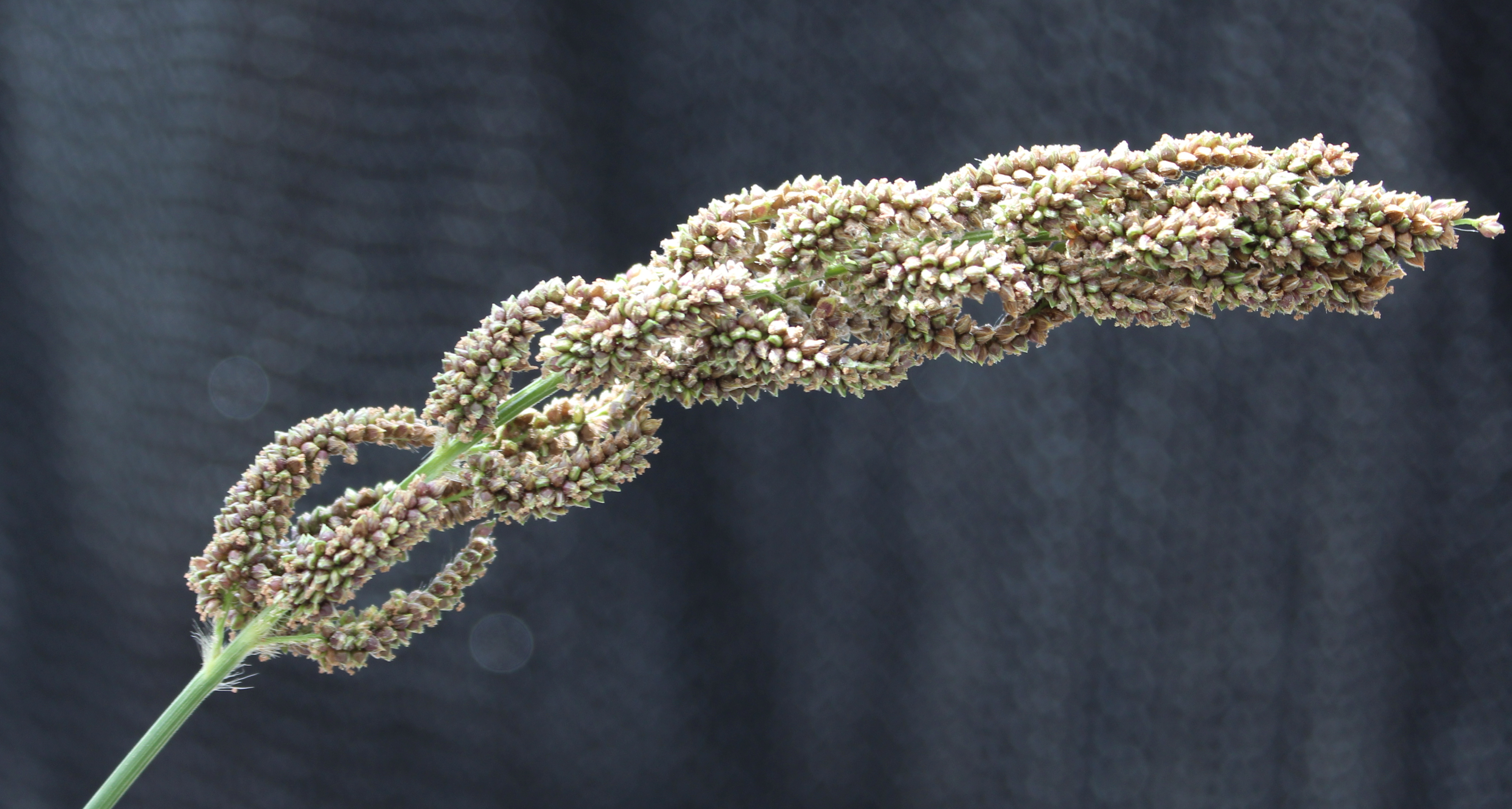 An inflorescence of Japanese millet (Echinochloa esculenta) with a number of anthers exerted.